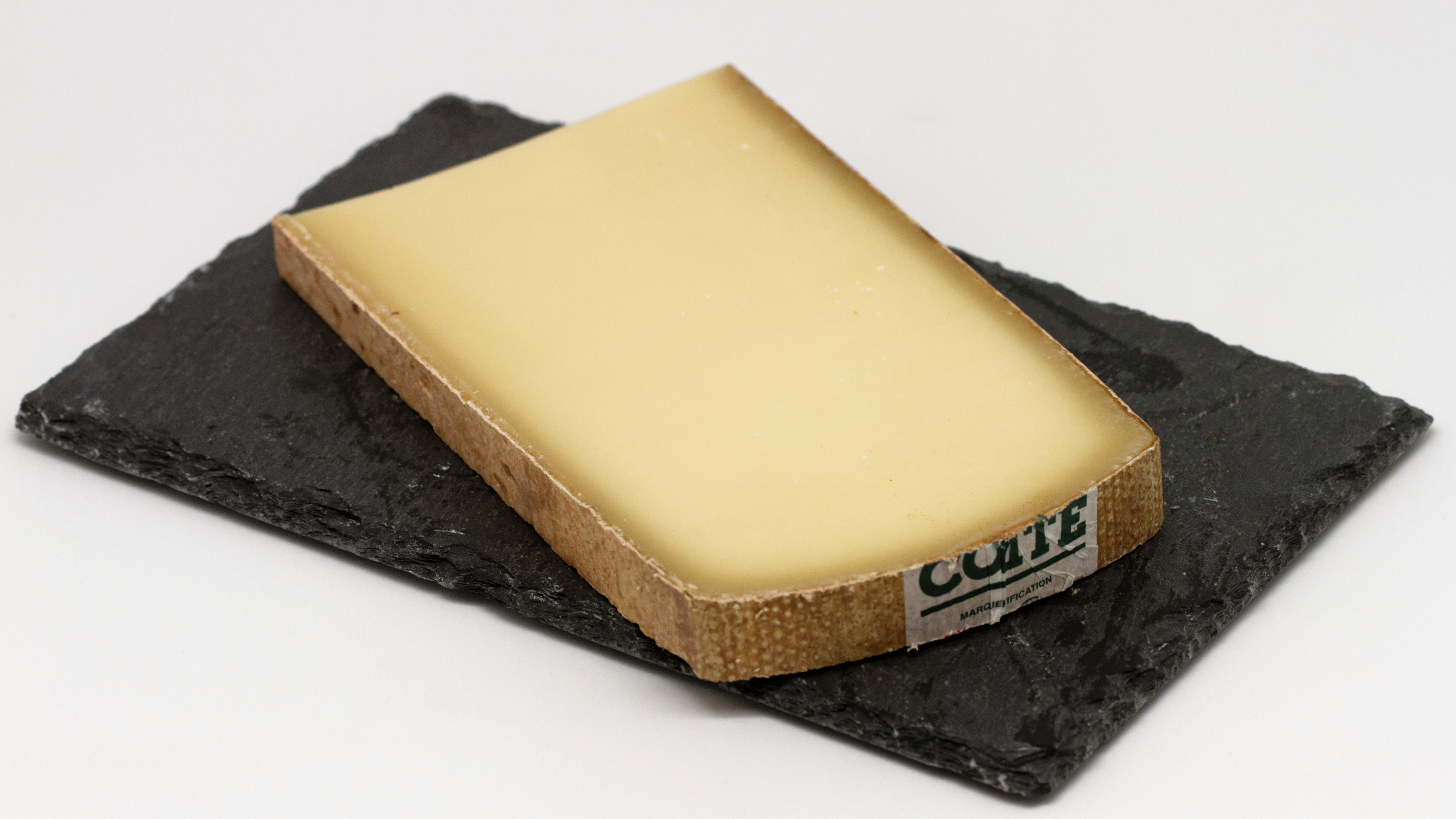 Comté (cow's milk cheese)